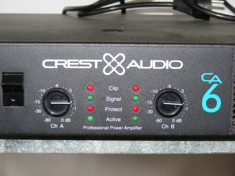 Free Photos – Crest – Professional Power Amplifier More photos and details about possible copyright or licensing restrictions here: Full Size Up to 3072 x 2304 pixels Information Regarding Copyright